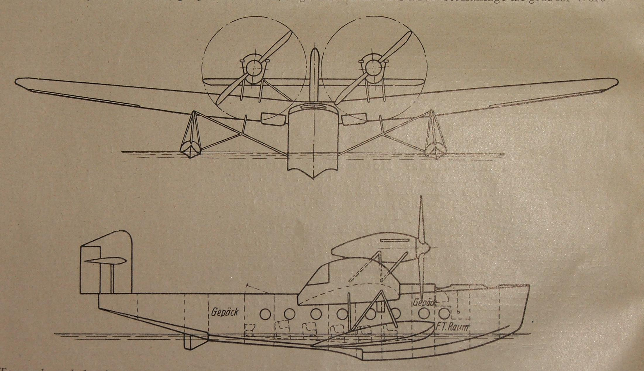 Rohrbach "Rocco"